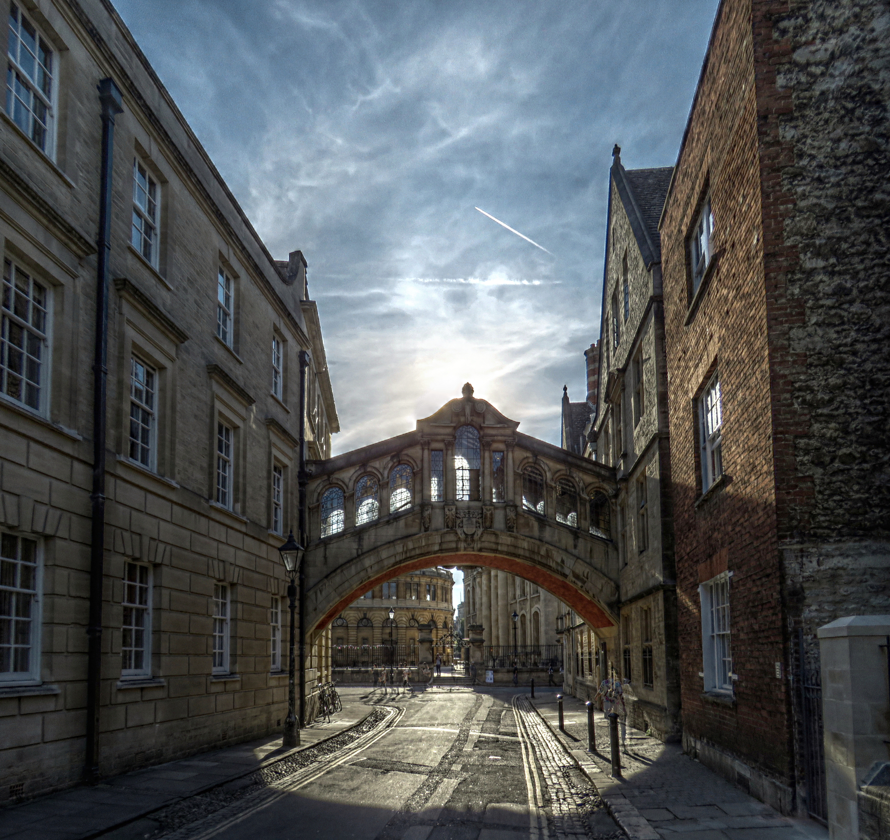 HDR image taken with the sun low behind Oxford architecture. The Bridge of Sighs with the Sheldonian theater in the background.